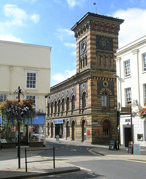 Bridgnorth town centre in the summer sunshine